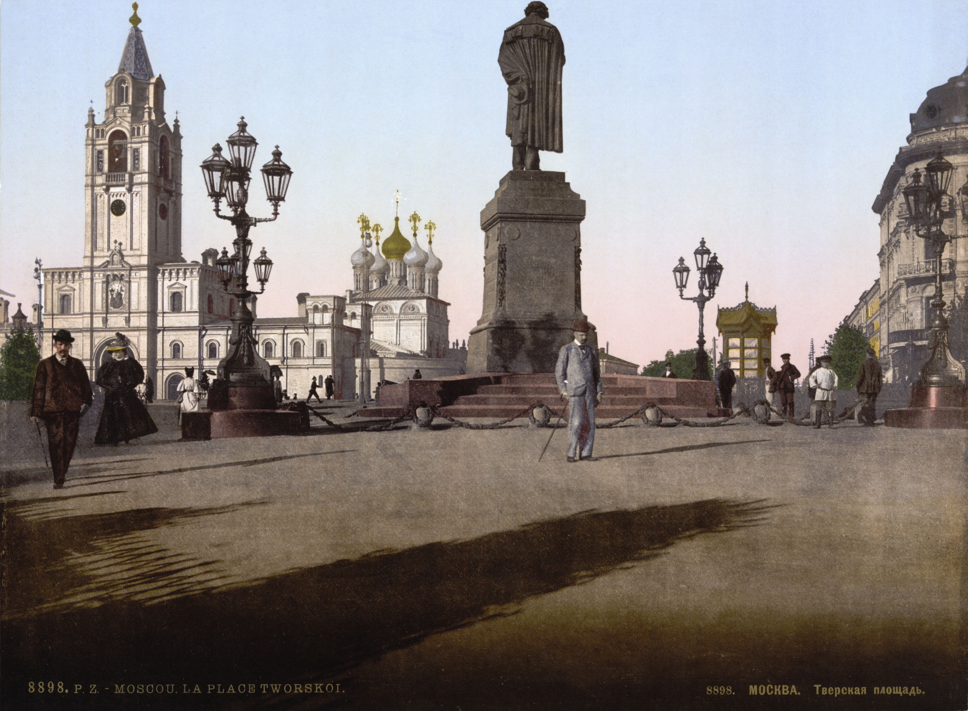 19th-century postcard of Alexander Pushkin Monument and Strastnoy Monastery in Moscow.